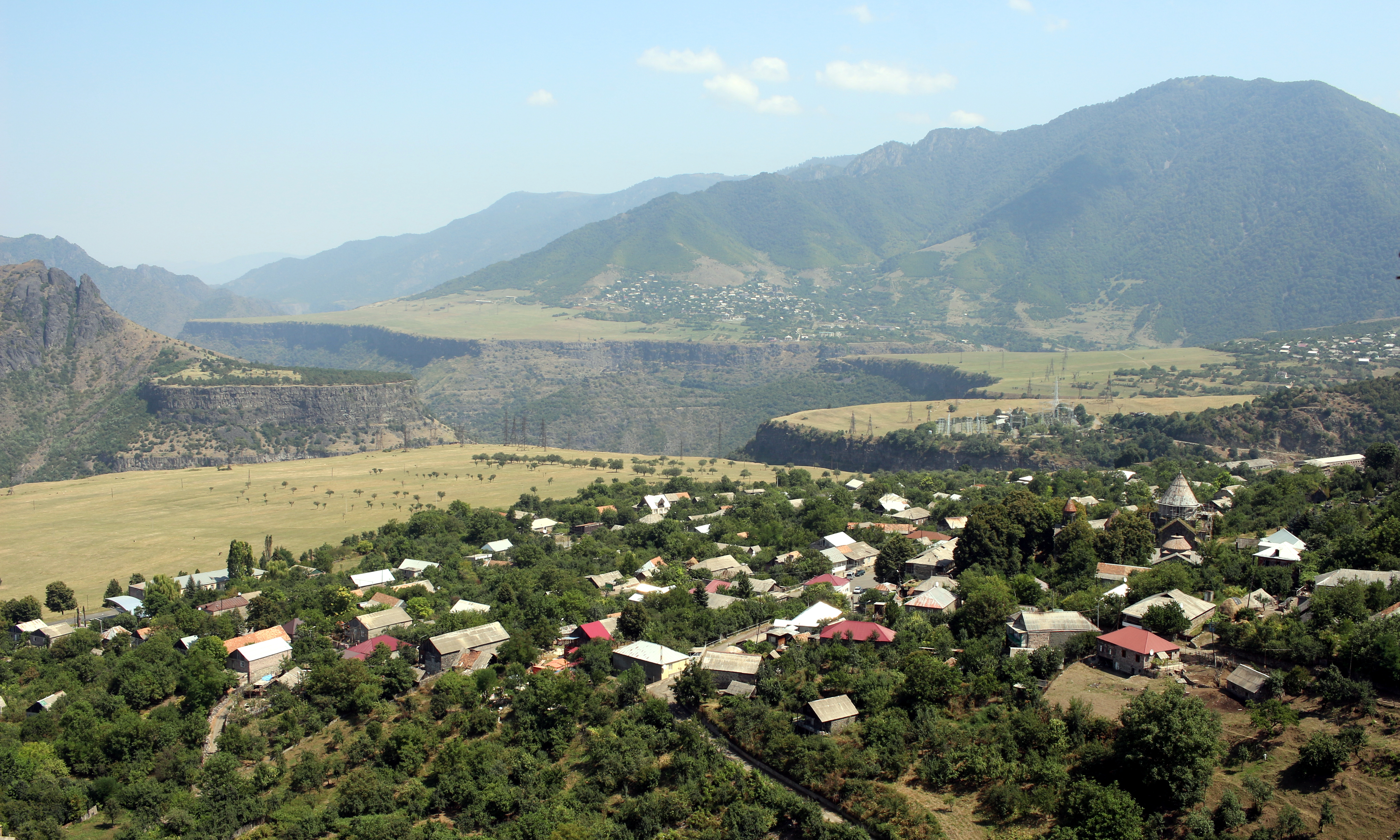 View of Sanahin in the valley of the river Debed in Armenia. In the background you can see Haghpat with its monastery.